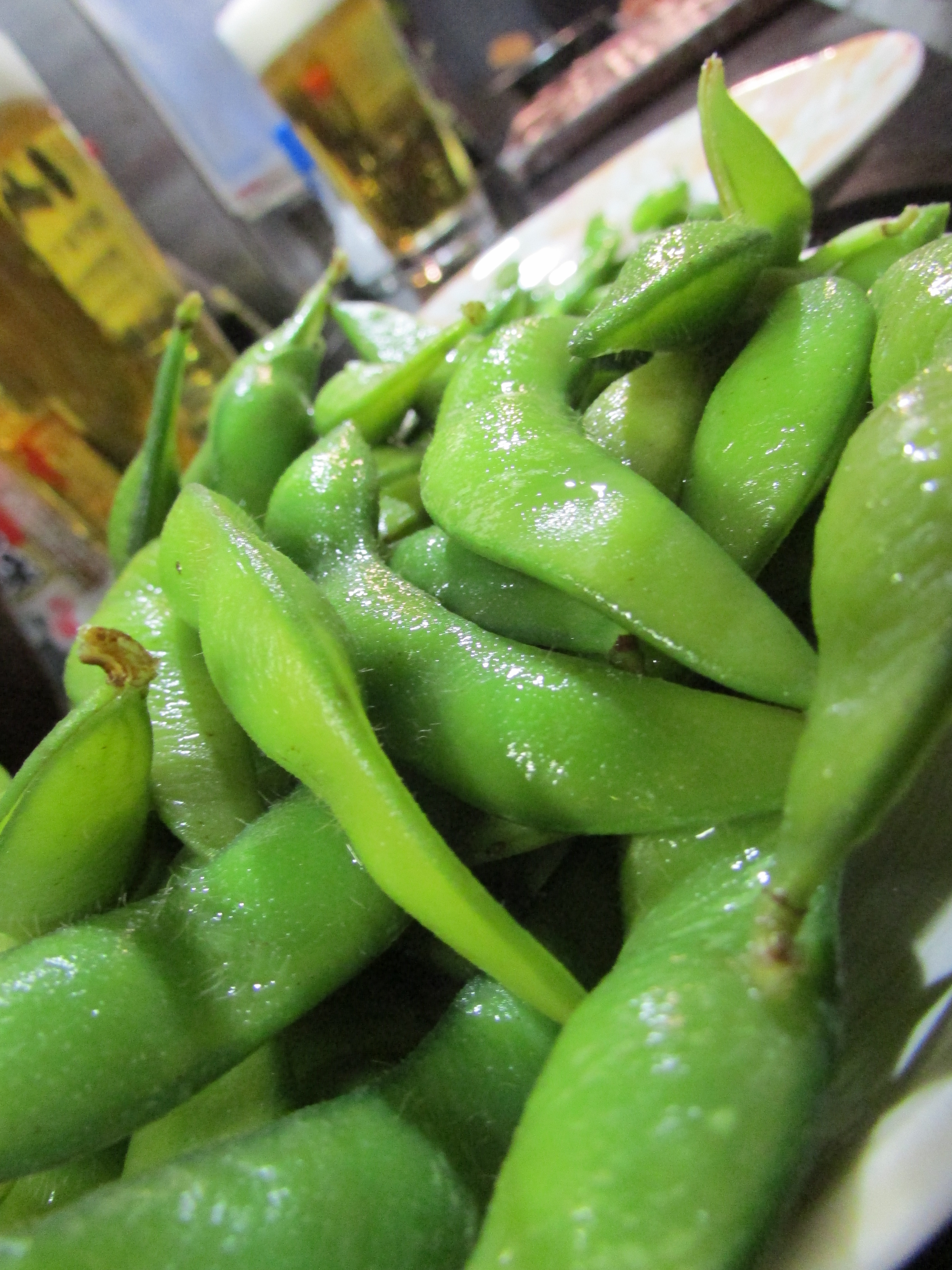 Close up of edamame, covered in salt with Tokyo restaurant in background.